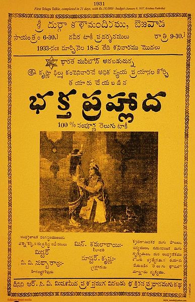 Cinema Programme, 1931